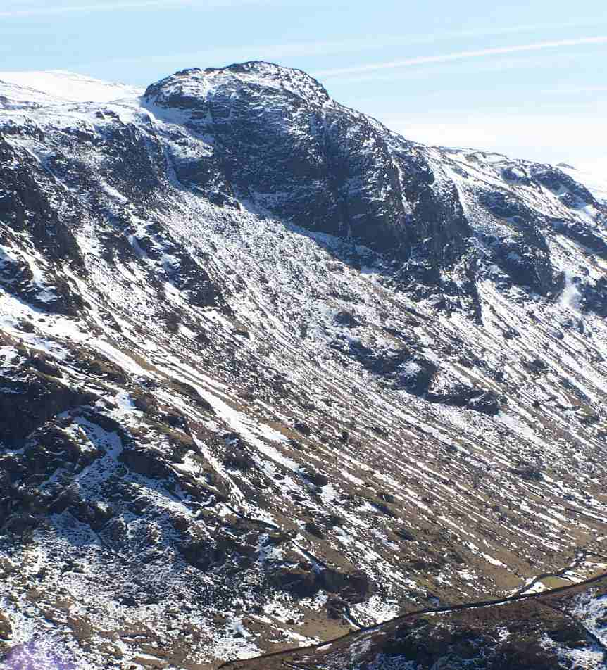 Sergeant's Crag seen from above the Stonethwaite valley. Personal photograph taken by Mick Knapton on March 22nd 2006